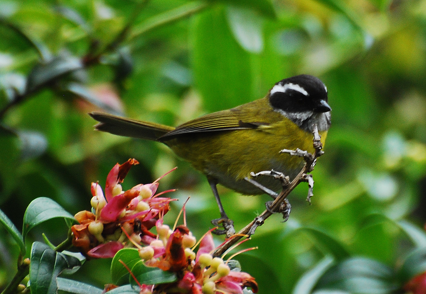 Sooty-capped Bush-tanager at the Mirador de Quetzals, Costa Rica, 080226. Chlorospingus pileatus.